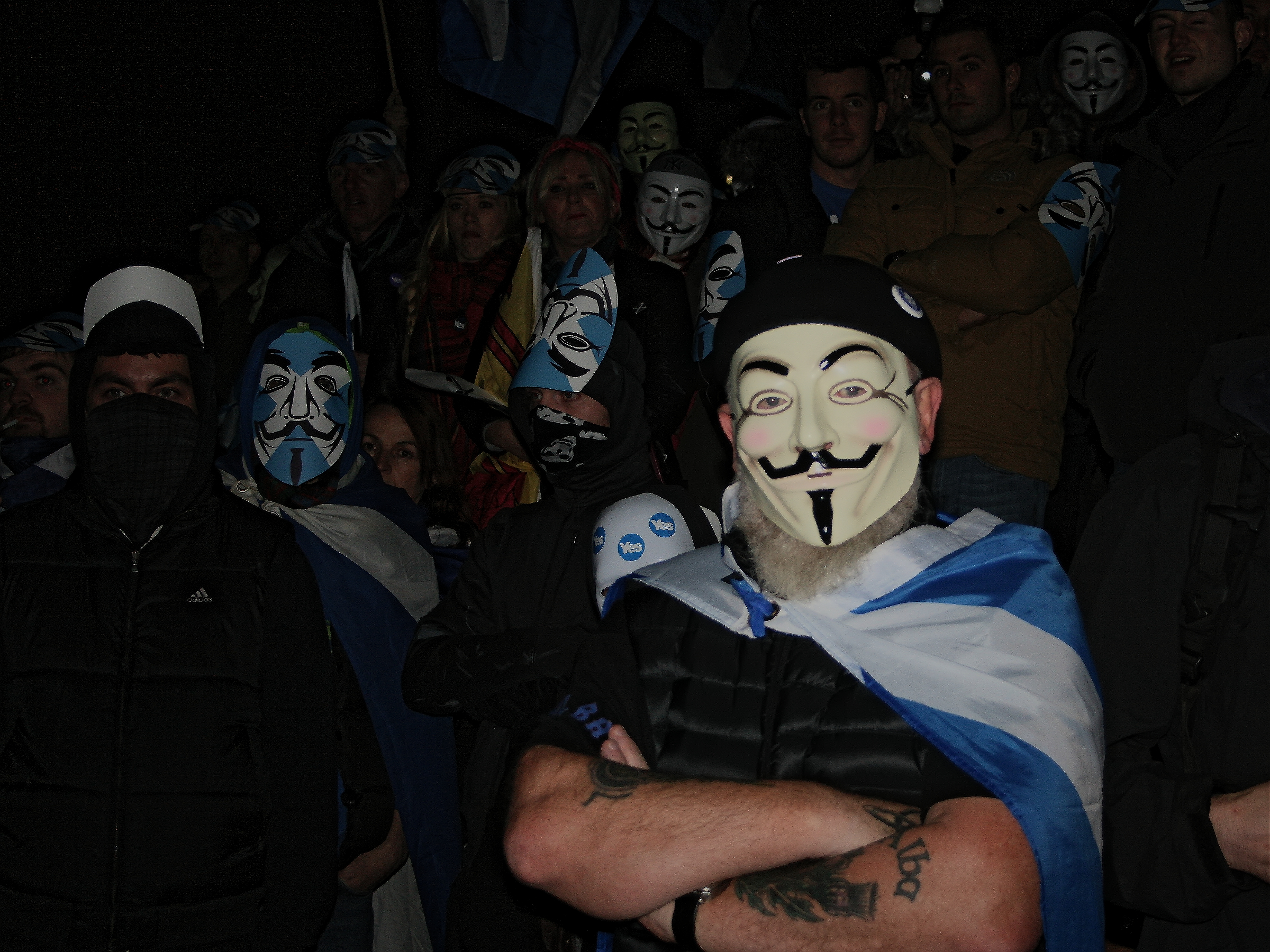 Edinburgh 'Million Mask March', November 5, 2014